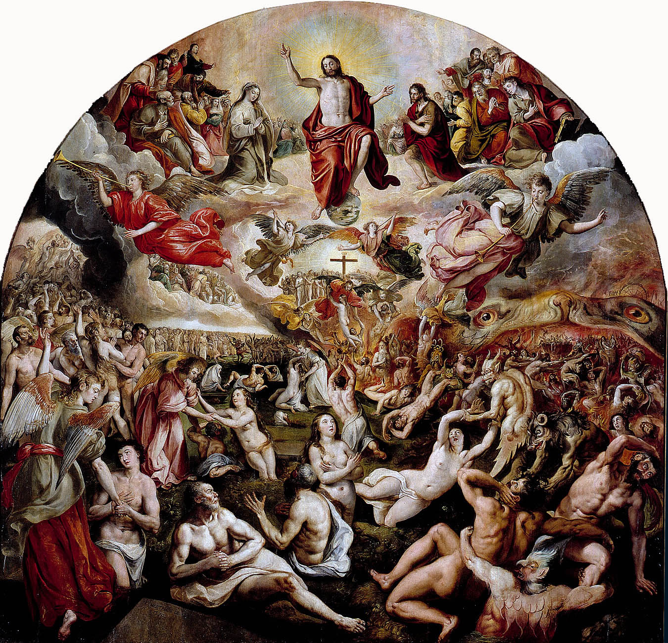 The Last Judgment